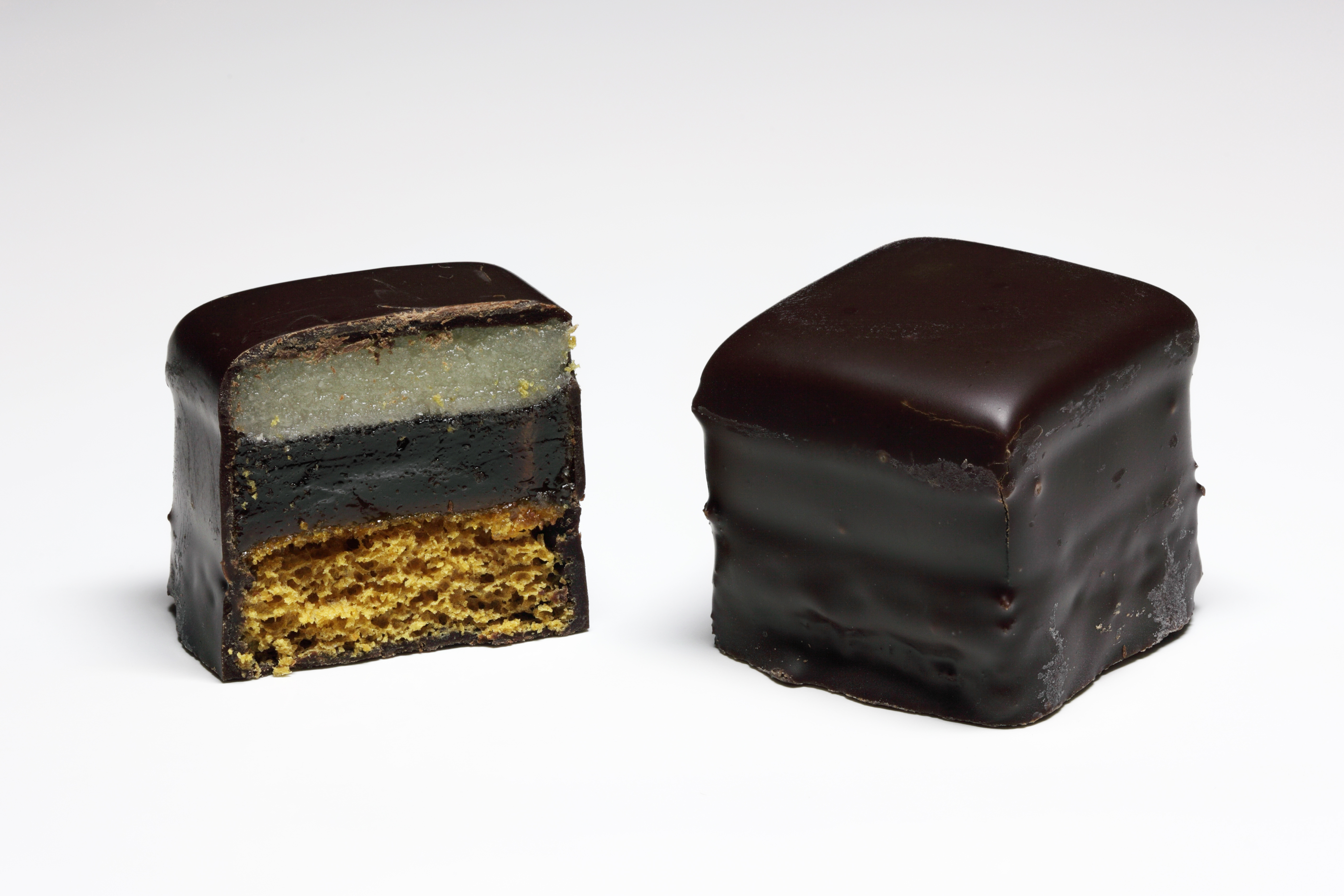 Dominosteine noble bitter chocolate coating. Size ca. 25x25x23mm.